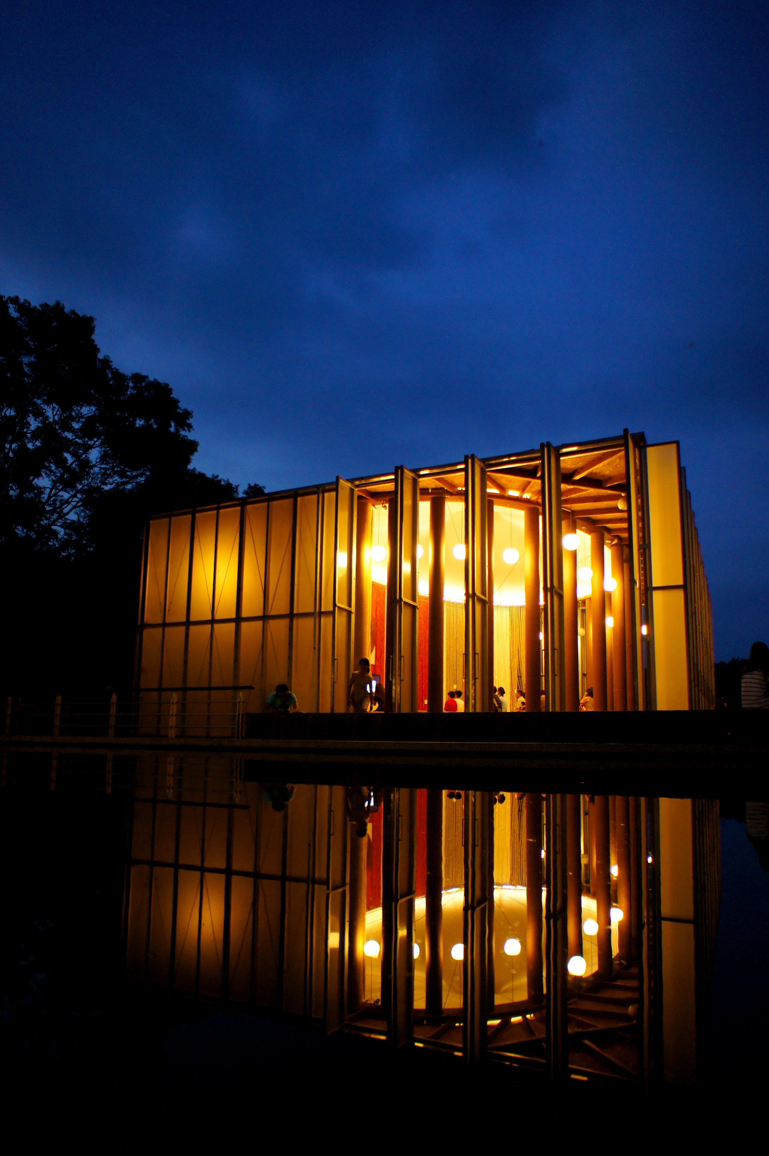 Paper Dome, New Homeland Resource Center, Puli, Nantou, Taiwan.